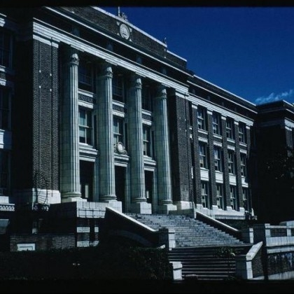 Photo of Maury High School, Norfolk, VA circa 1961